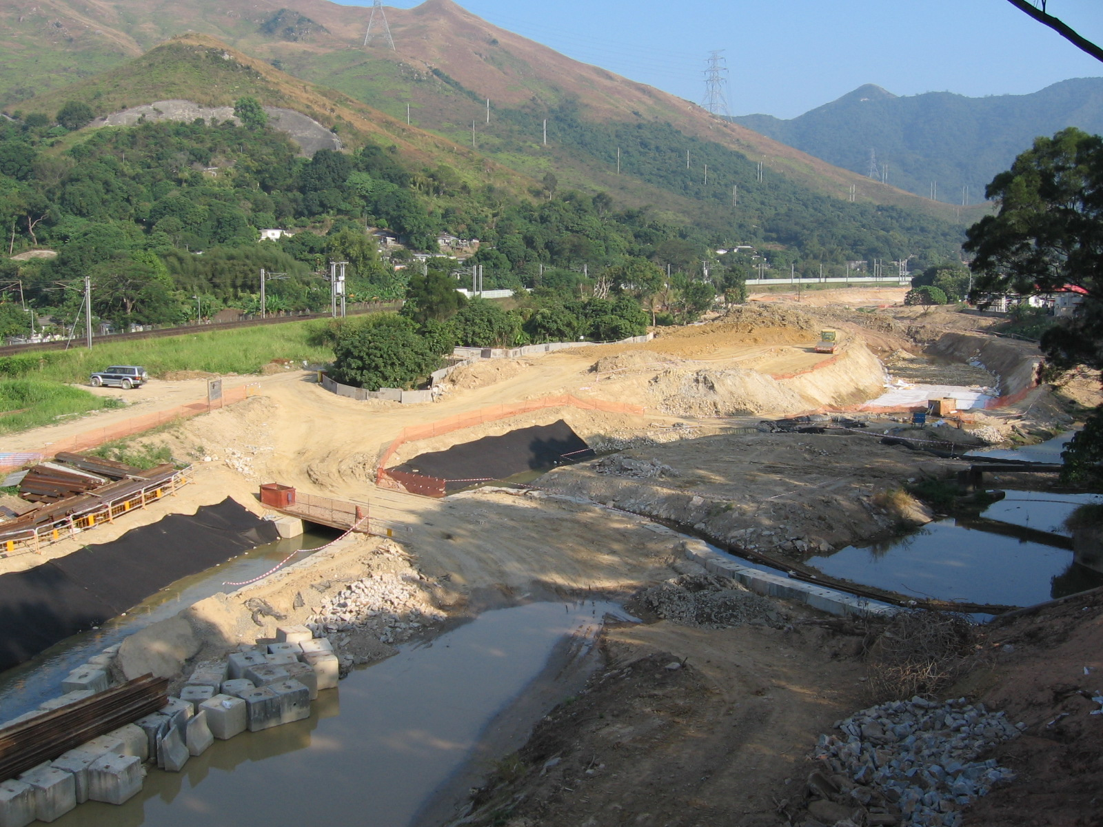 Ma Wat River near Tong Hang under construction, 2005